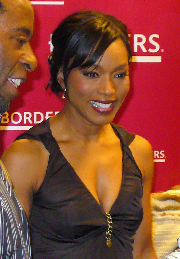 American actress Angela Bassett